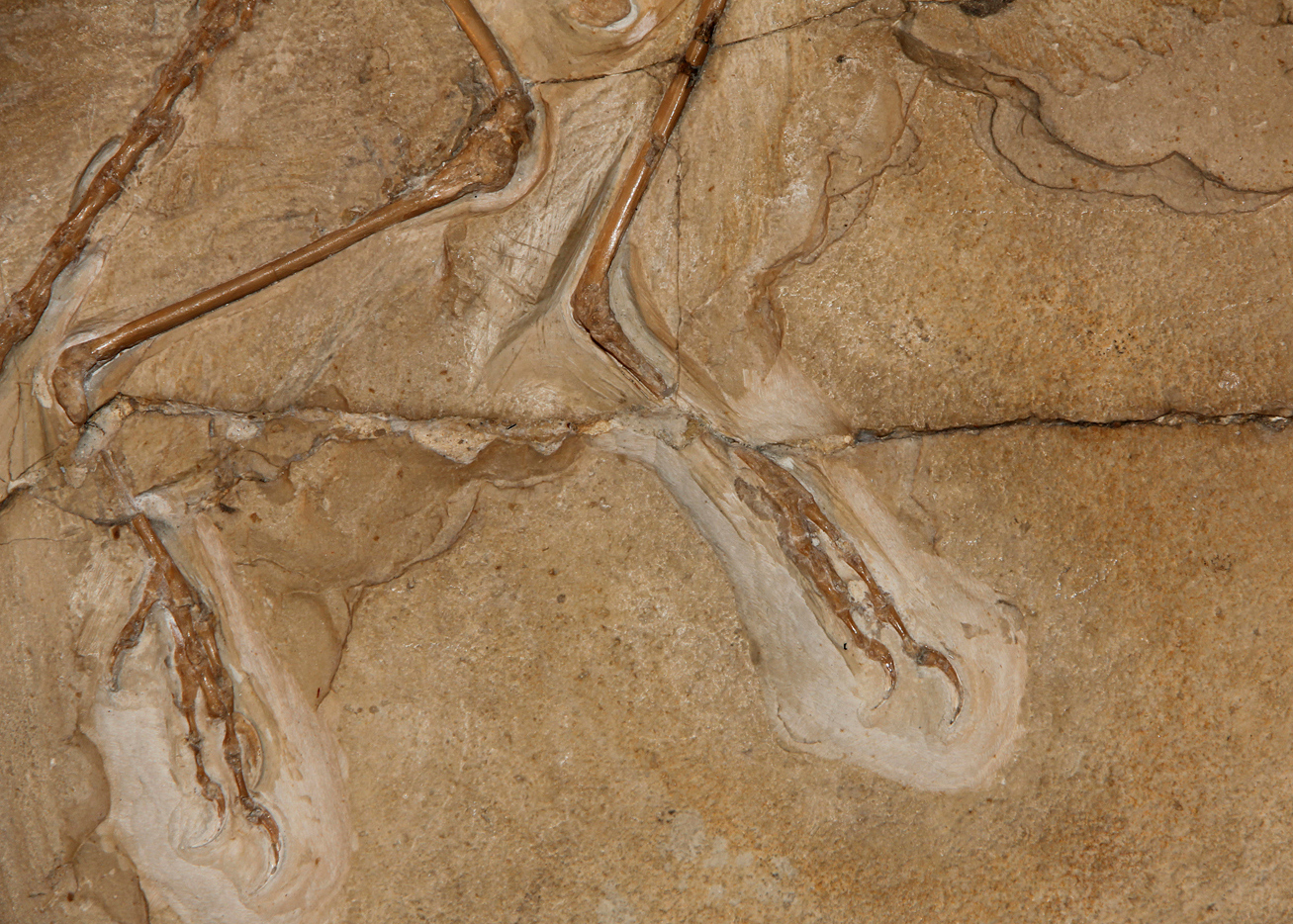 Detail of feet of Archaeopteryx lithographica fossil displayed at the Museum für Naturkunde in Berlin. (Original specimen; not a cast)